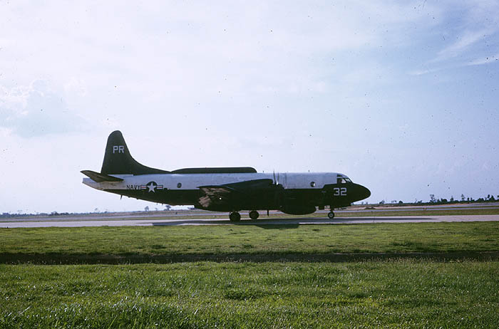 VQ-1 (PR 32) EP-3B (BuNo 149669) at NAS Agana, Guam, April 1972. Repository: San Diego Air and Space Museum Archive